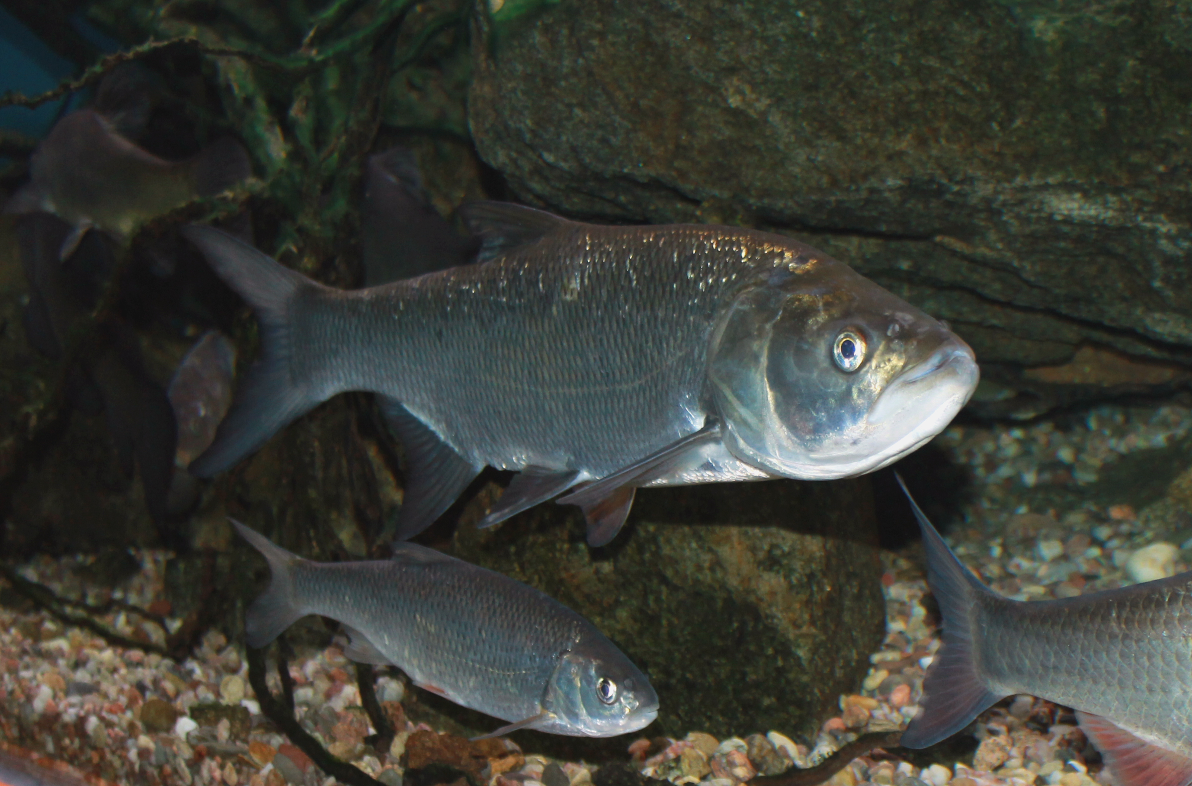 Fish asp on exhibition Subaqueous Vltava, Prague 2011, Czech Republic